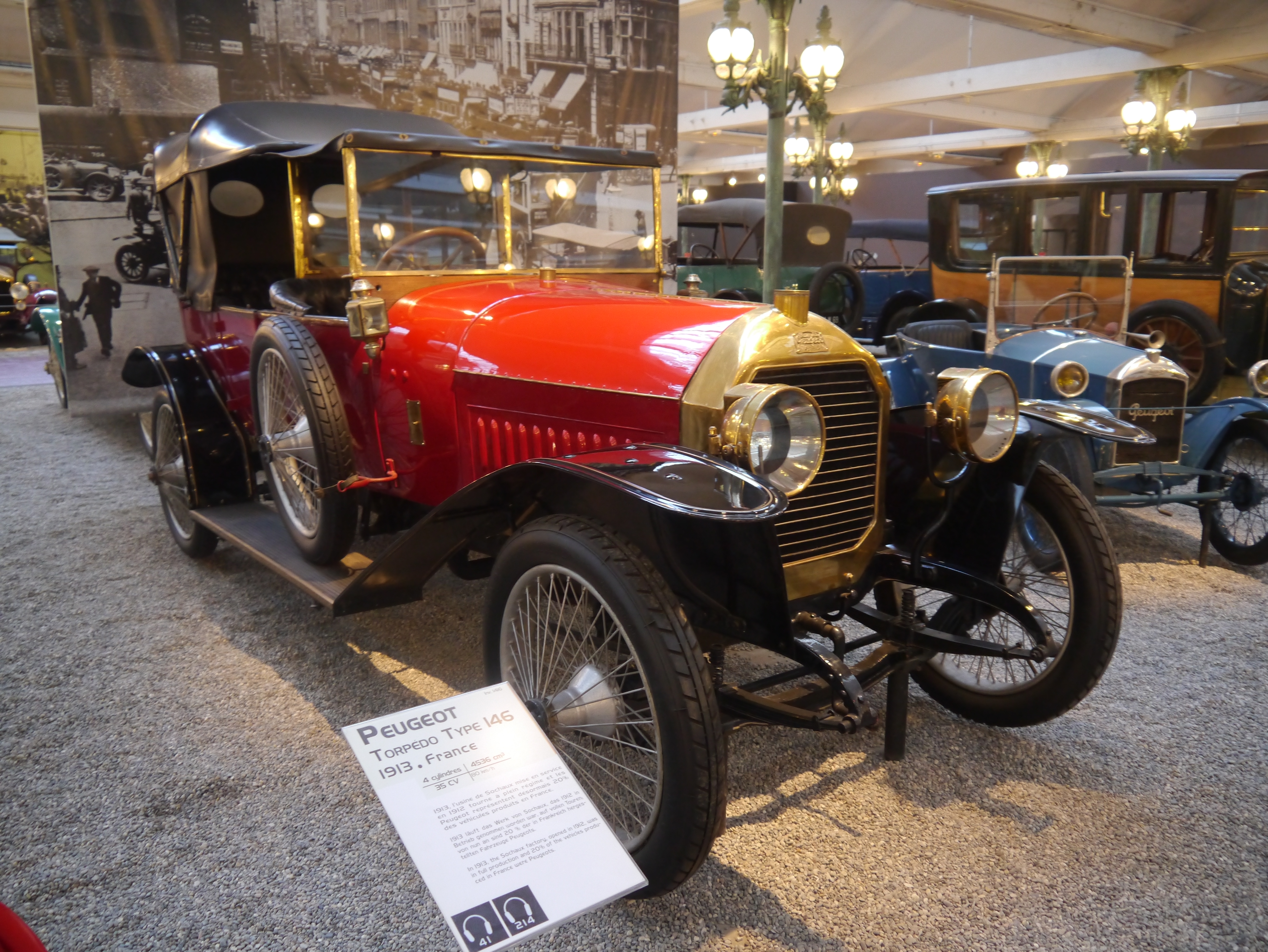 Cité de l'Automobile/National Automobile Museum, Mulhouse, Alsace, France